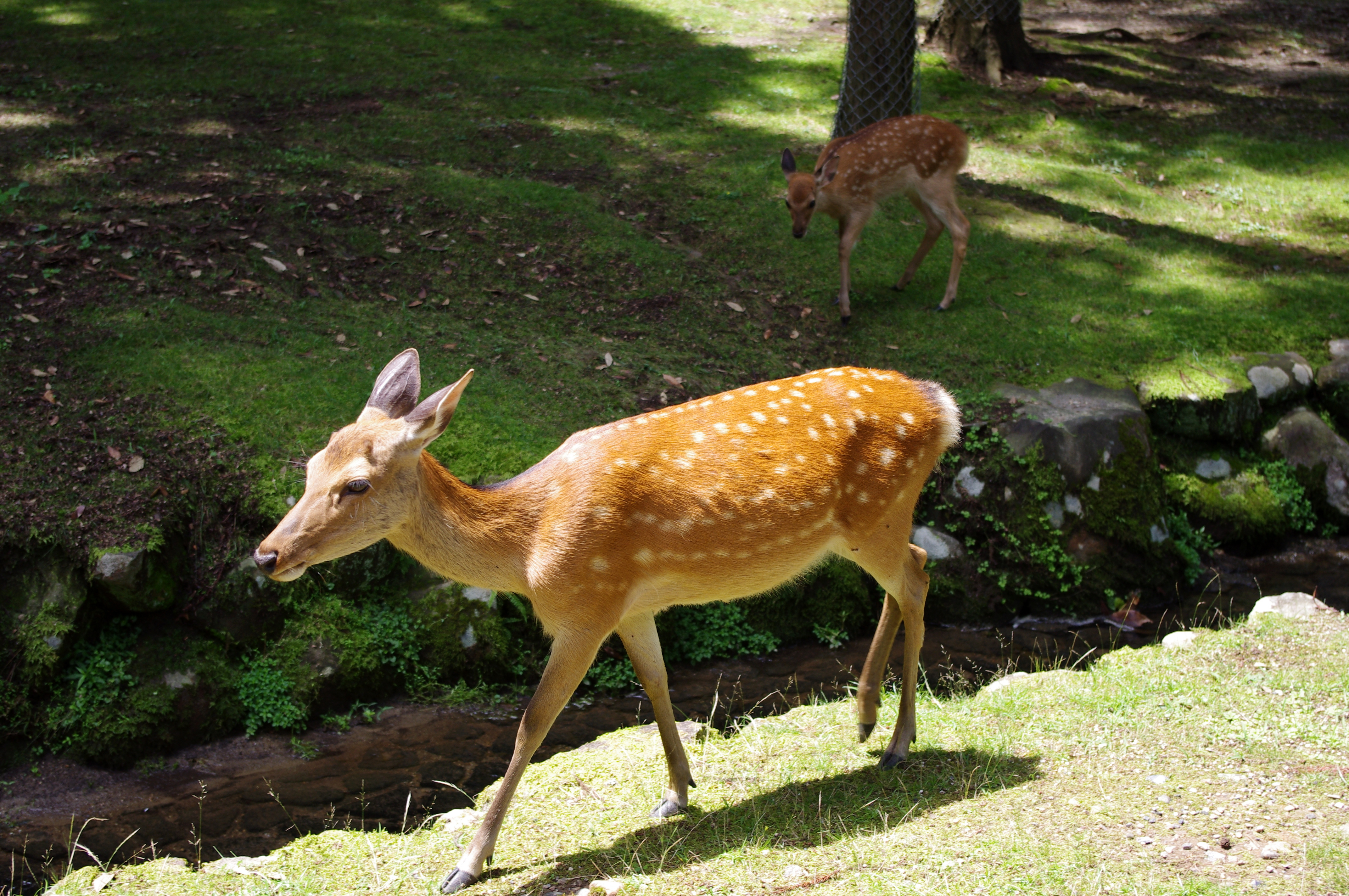 Sika deer in the town of Nara